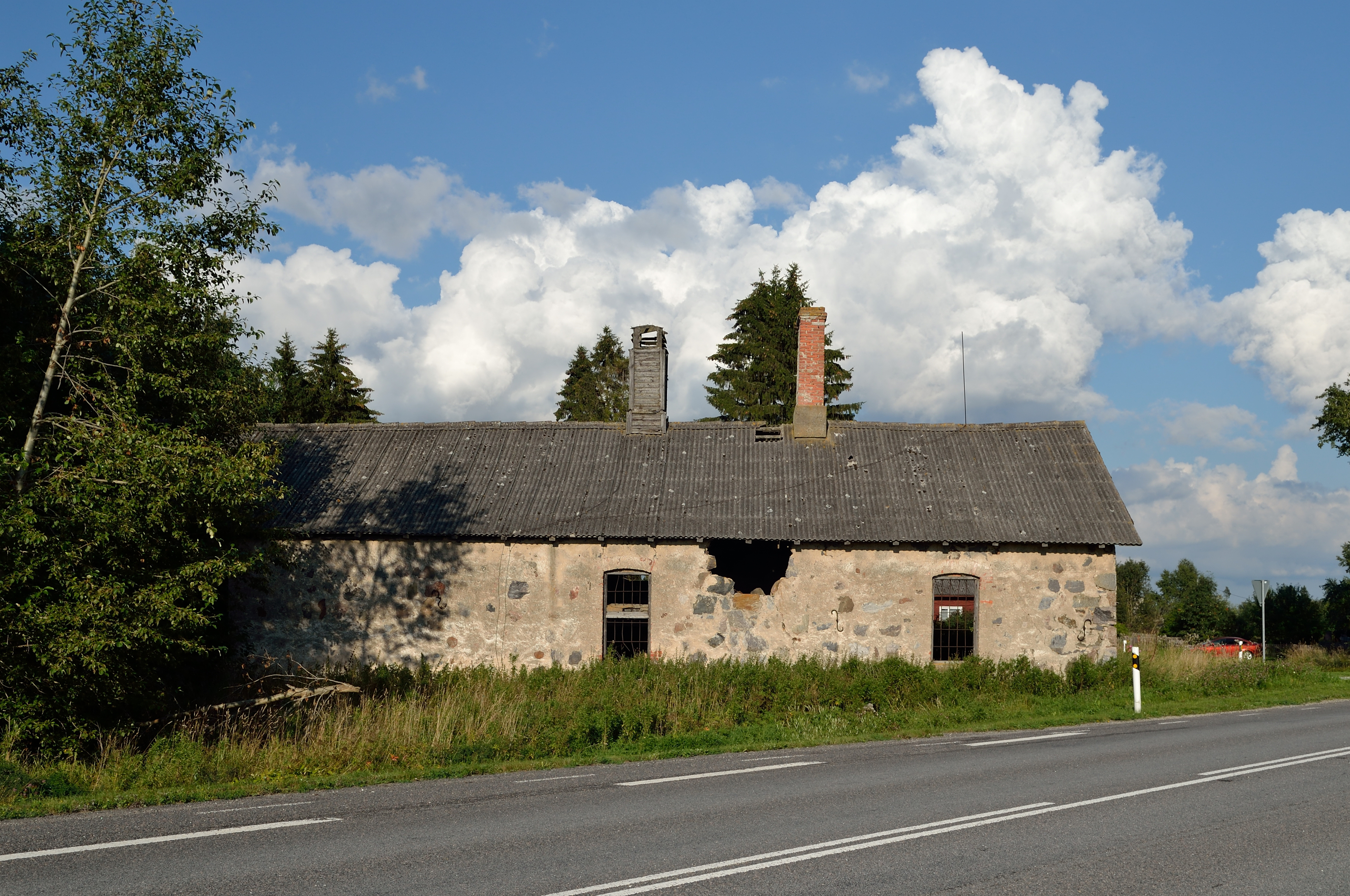 Ruins of Kabala manor (Estonia, Viru-Nigula) ancillary building